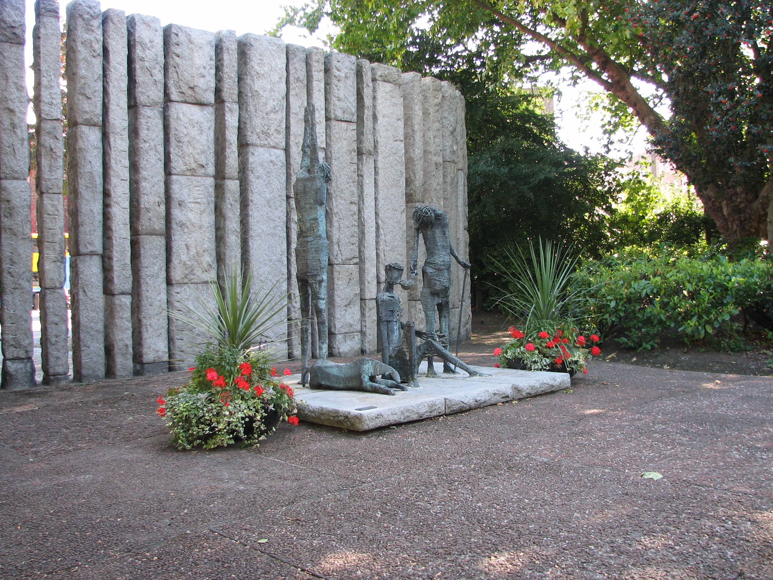 Memorial in St. Stephen’s Green Dublin. Titled “Famine” by Edward Delaney R. H. A